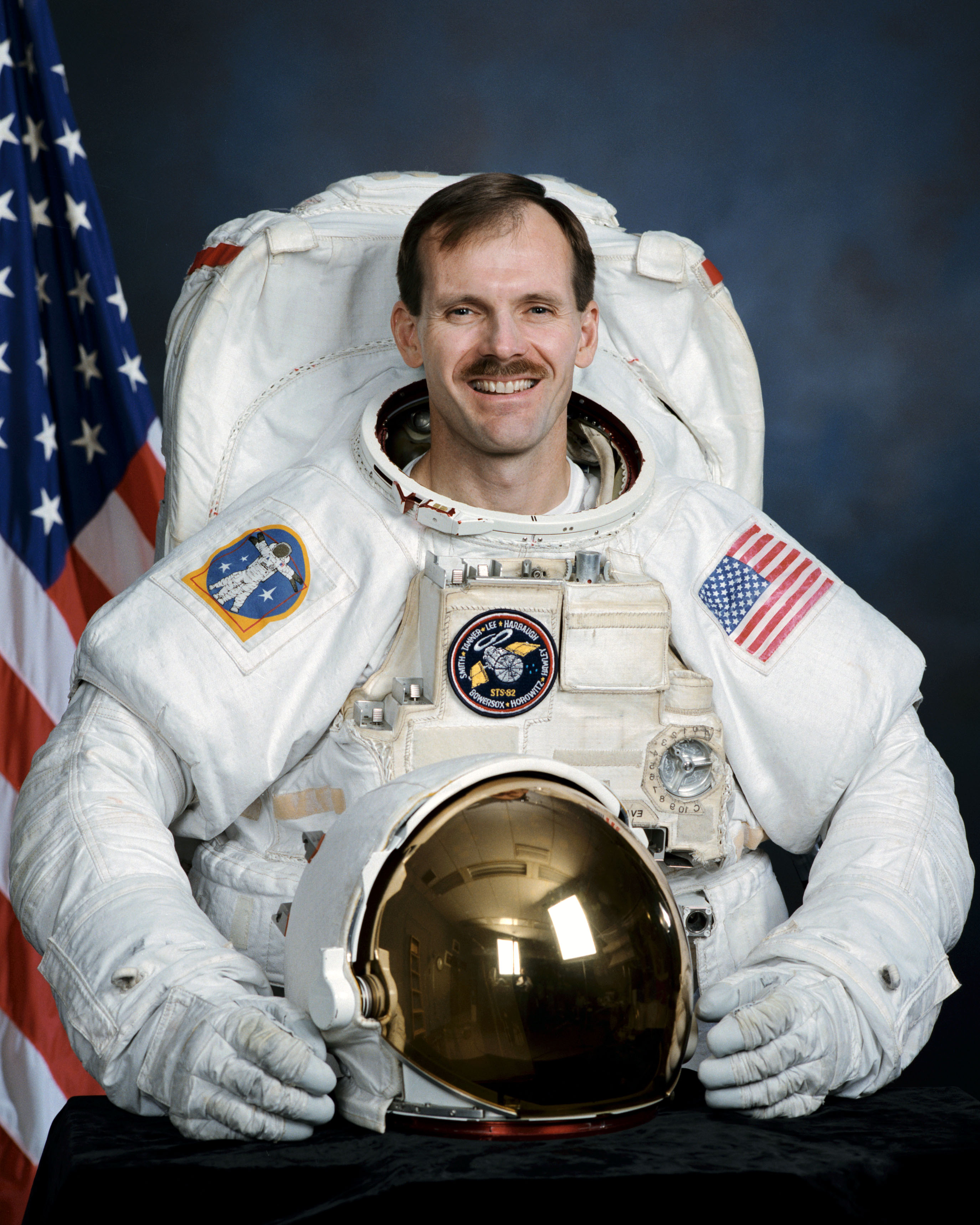 portrait astronaut Steven Smith